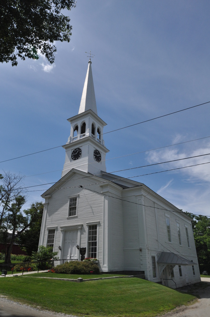 Congregational Church, Peacham Corner Historic District, Peacham, Vermont.